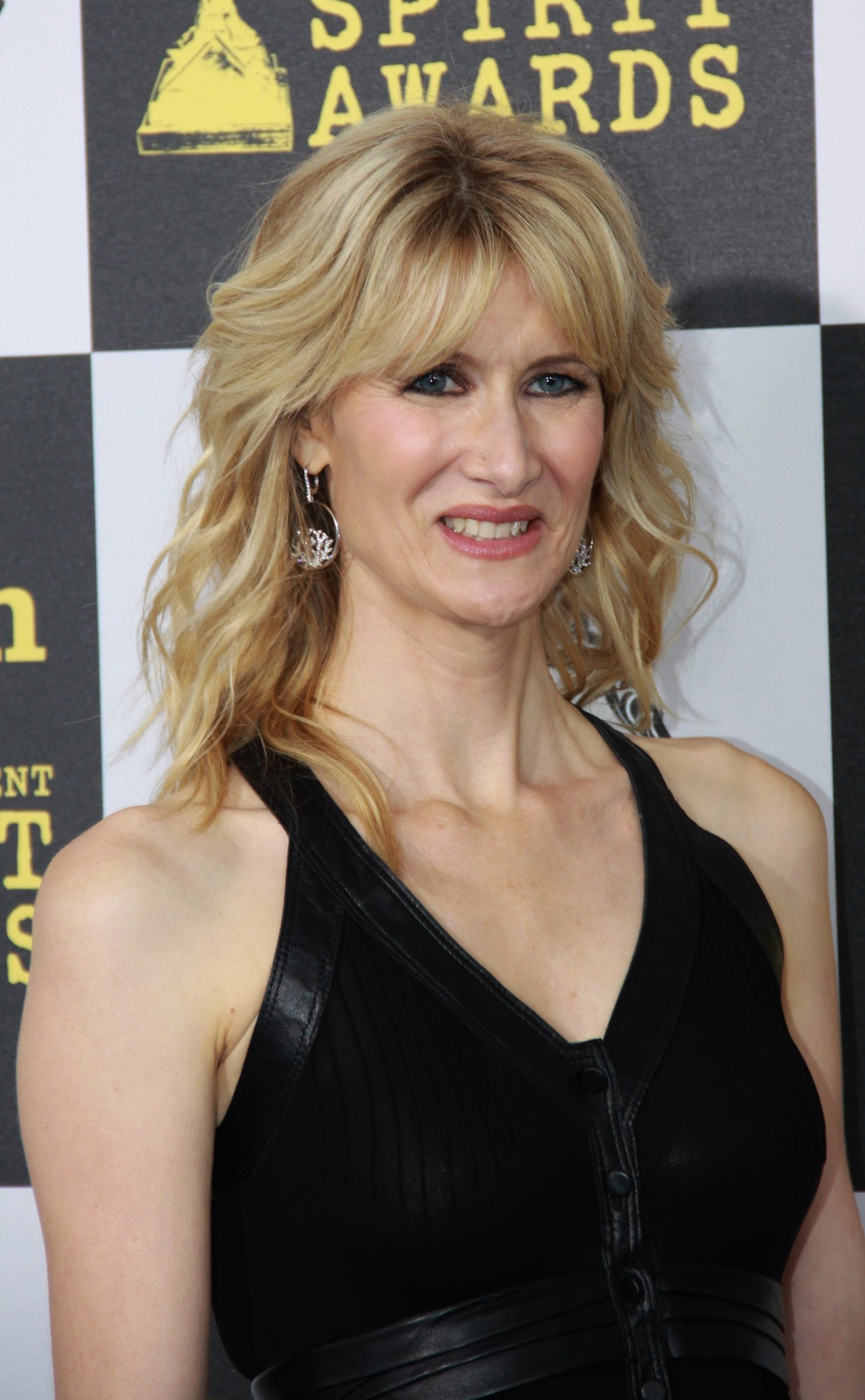 Laura Dern at the Independent Spirit Awards in Los Angeles on March 5th, 2010.